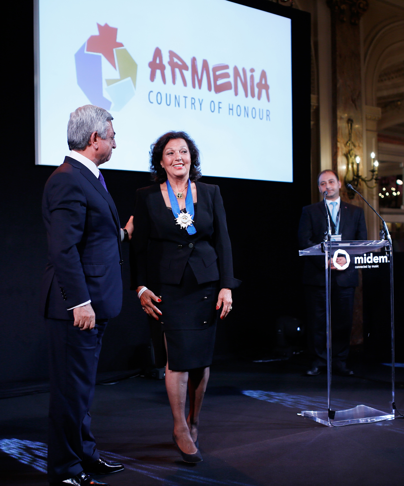 Medal of Honor in the Midem, June 2015, Cannes France